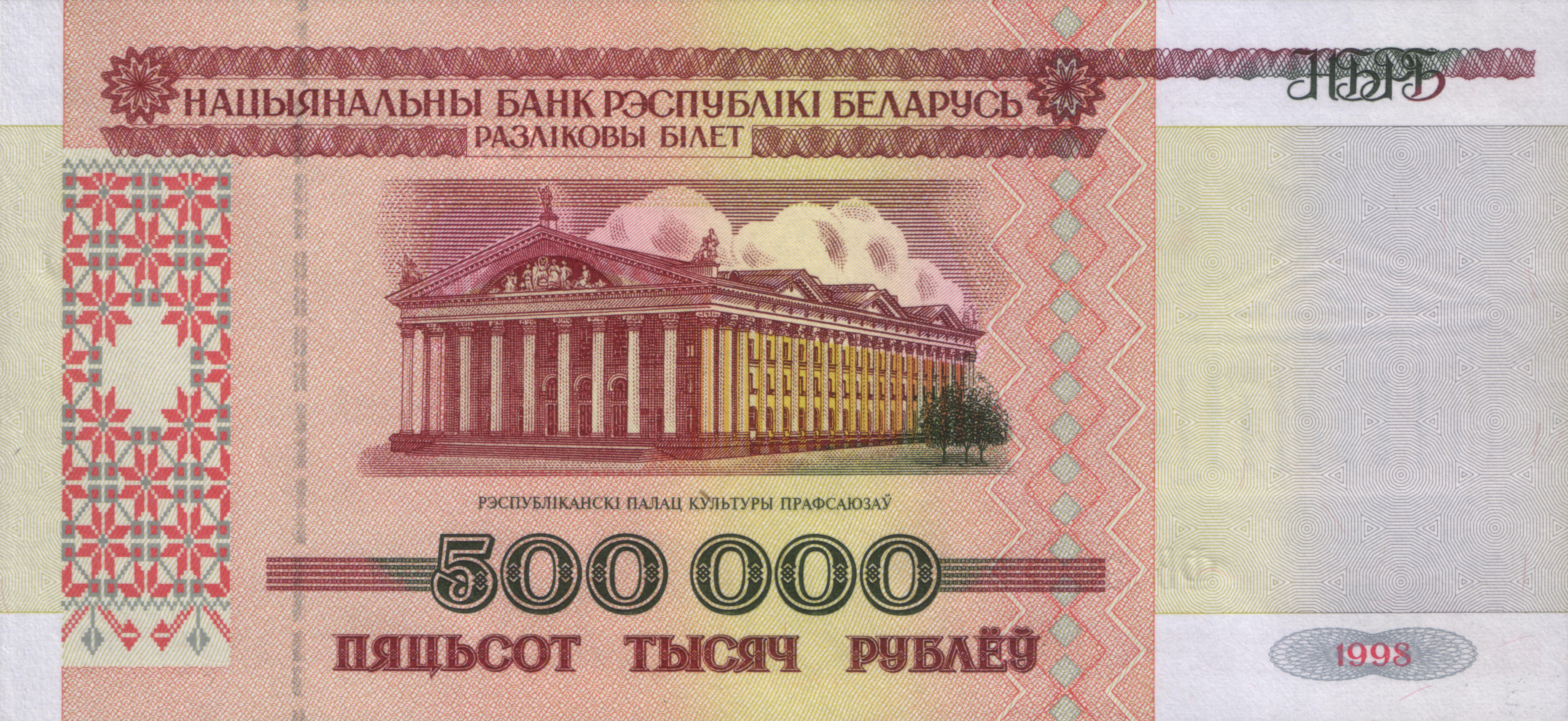 500 000 roubles of Belarus (1994)